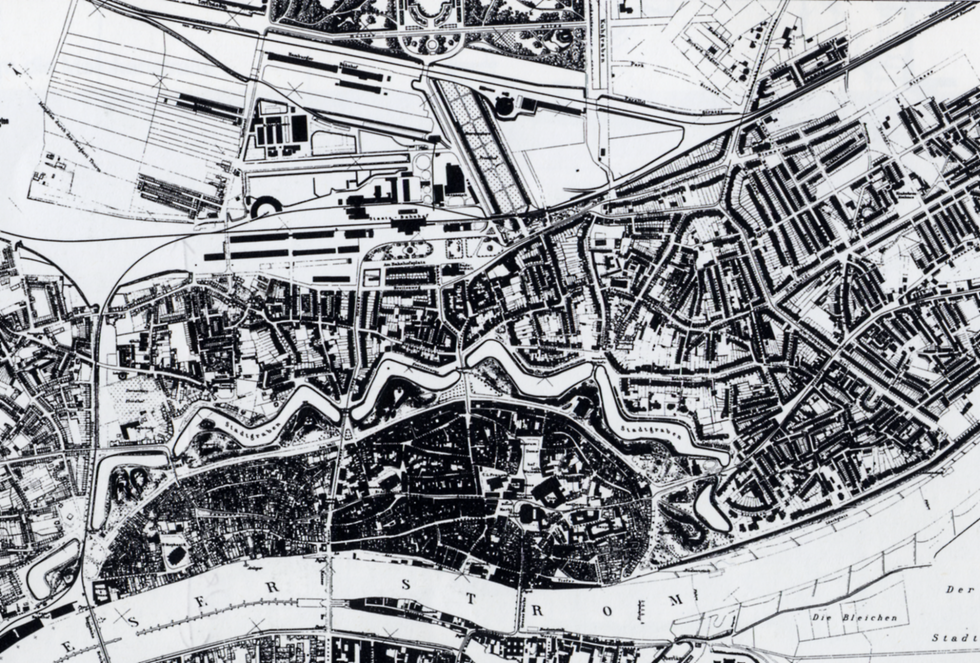 Citymap of Bremen from 1884, vertical is northeast. From top: Municipal park "Bürgerpark", Hamburger Bahnhof (Hamburg-Venlo-station), Staats-Bahnhof (station of the former Hanoveran National railways)